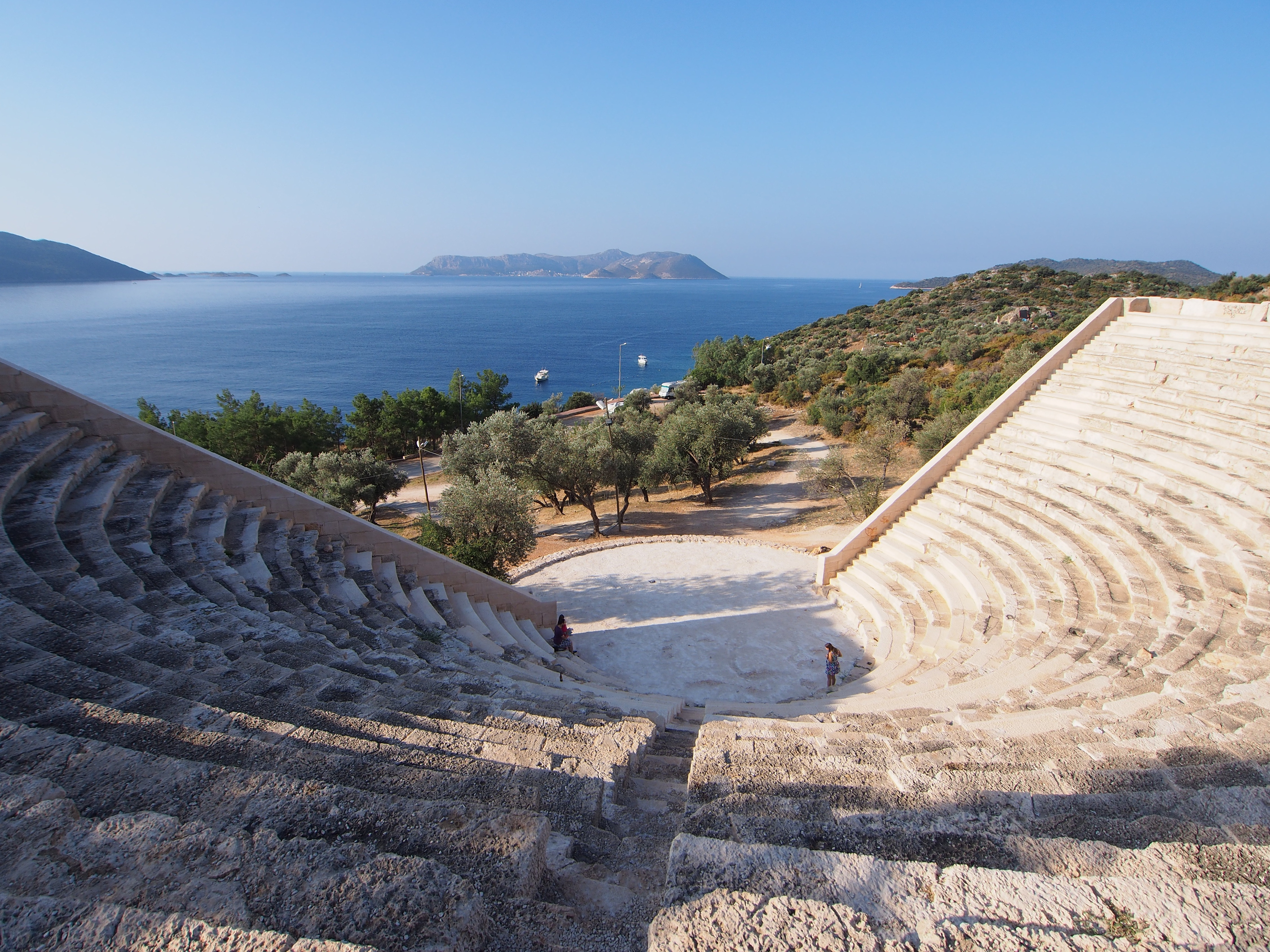 Antiphellus Ancient Theatre - 2014.10